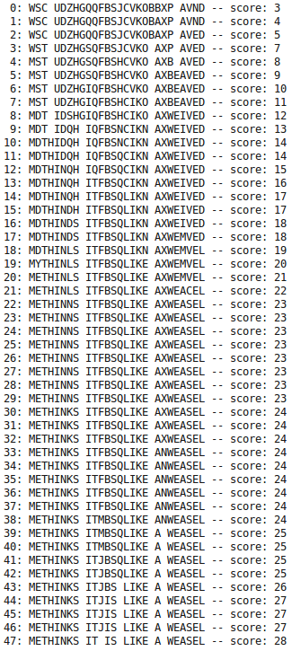 A full run of a weasel program, with 100 offspring per generation, and a 5% mutation chance per character copied. Only the "fittest" strings of each generation are shown. Note that, in generation 8, the 25th character, which had been correct (A), becomes incorrect (I); the program does not "lock" correct characters. Source code at User:Evercat/weasel.c. Text version of the output at User:Evercat/weasel-output.txt.